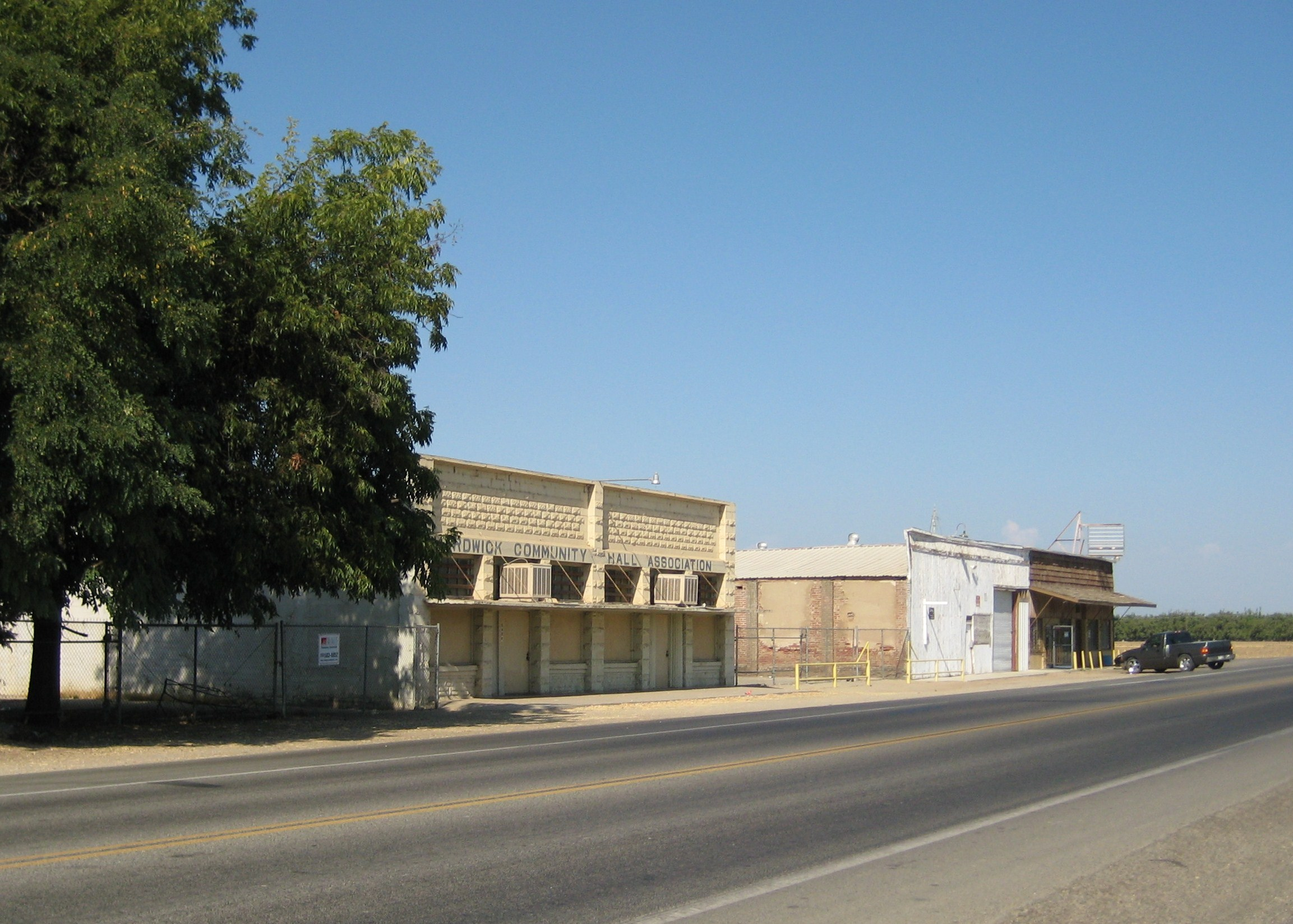 Photo of Hardwick, California taken on Excelsior Avenue looking NE and showing the Hardwick Community Hall and the local market.